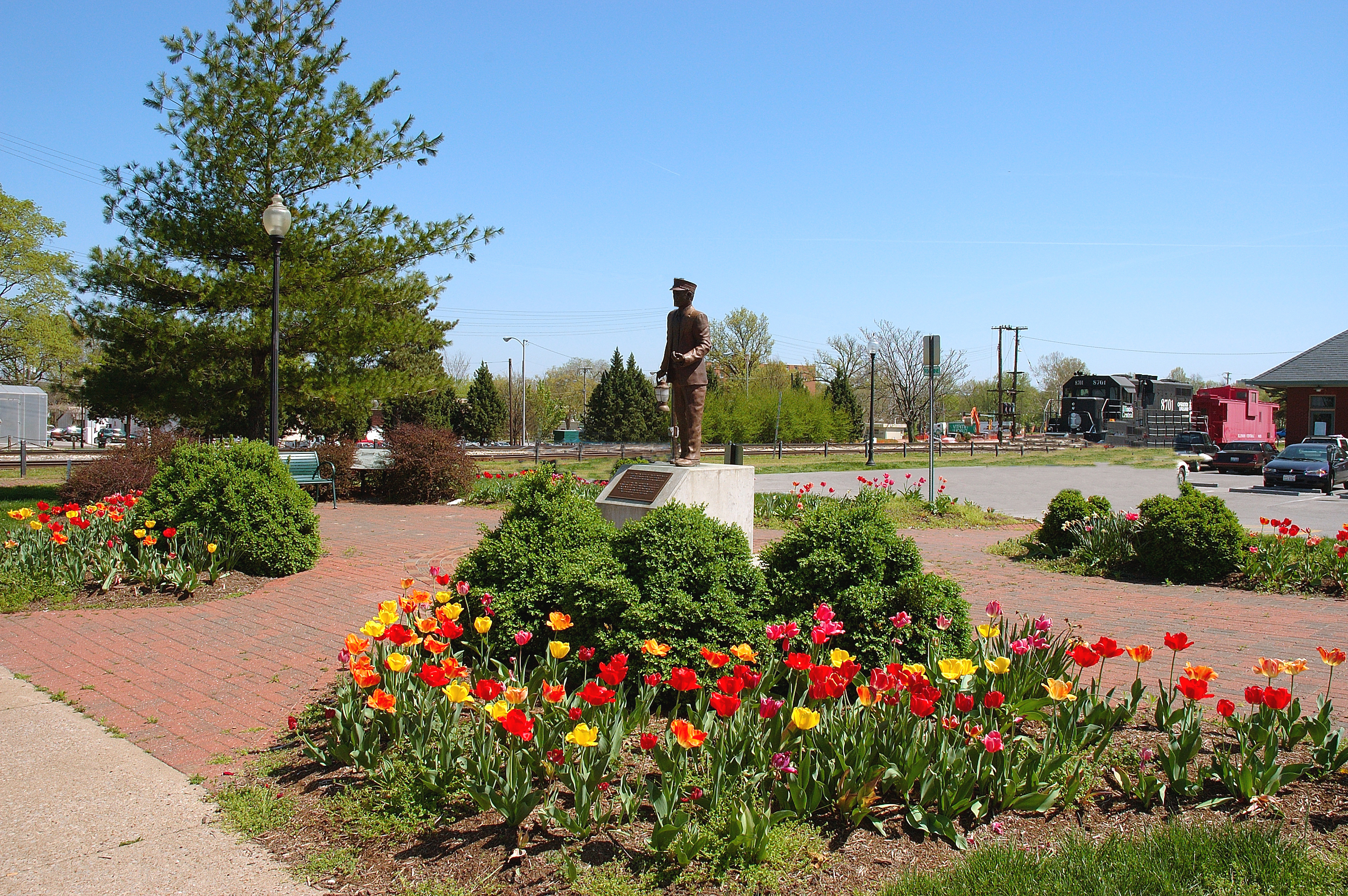 This statue was placed here by Station Carbondale, Inc. through donations from people dedicated to the preservation of Carbondale's railroad history. The first train came to Carbondale, July 4, 1854. As many as 53 passenger trains passed through here each day at the peak of our railroad activity. We salute our railroaders for their hard work and dedication to their profession.